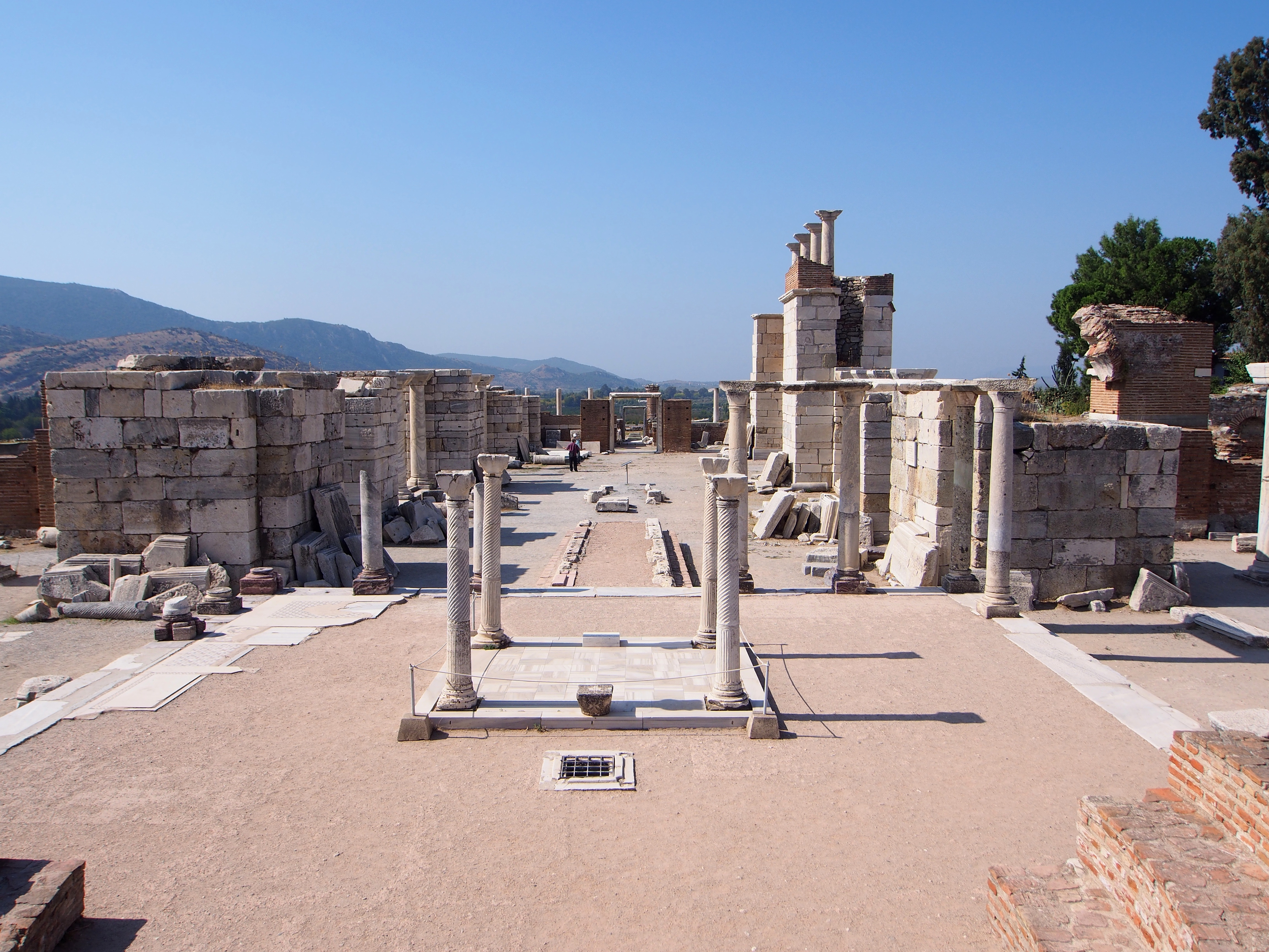 Basilica of St. John - 2014.10